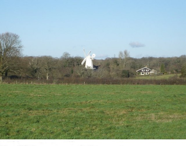 Kingsmill, Shipley The Anglo-French author Hilaire Belloc (1870 - 1953) owned Kingsmill and the adjoining property, Kingsland from the 1920s to his death. Belloc is buried at West Grinstead Roman Catholic church For a bit on the mill